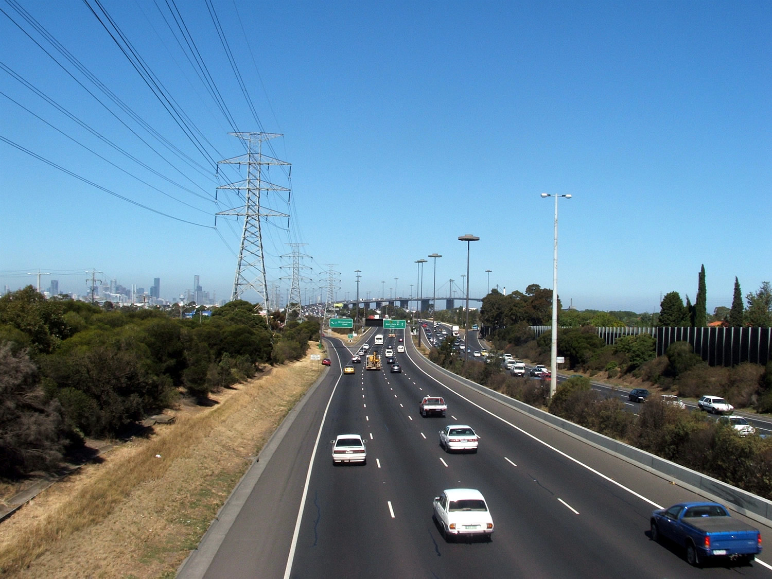 Looking east from Spotswood/Yarraville footbridge over the West Gate Freeway (Melbourne, Australia), toward the West Gate Bridge.